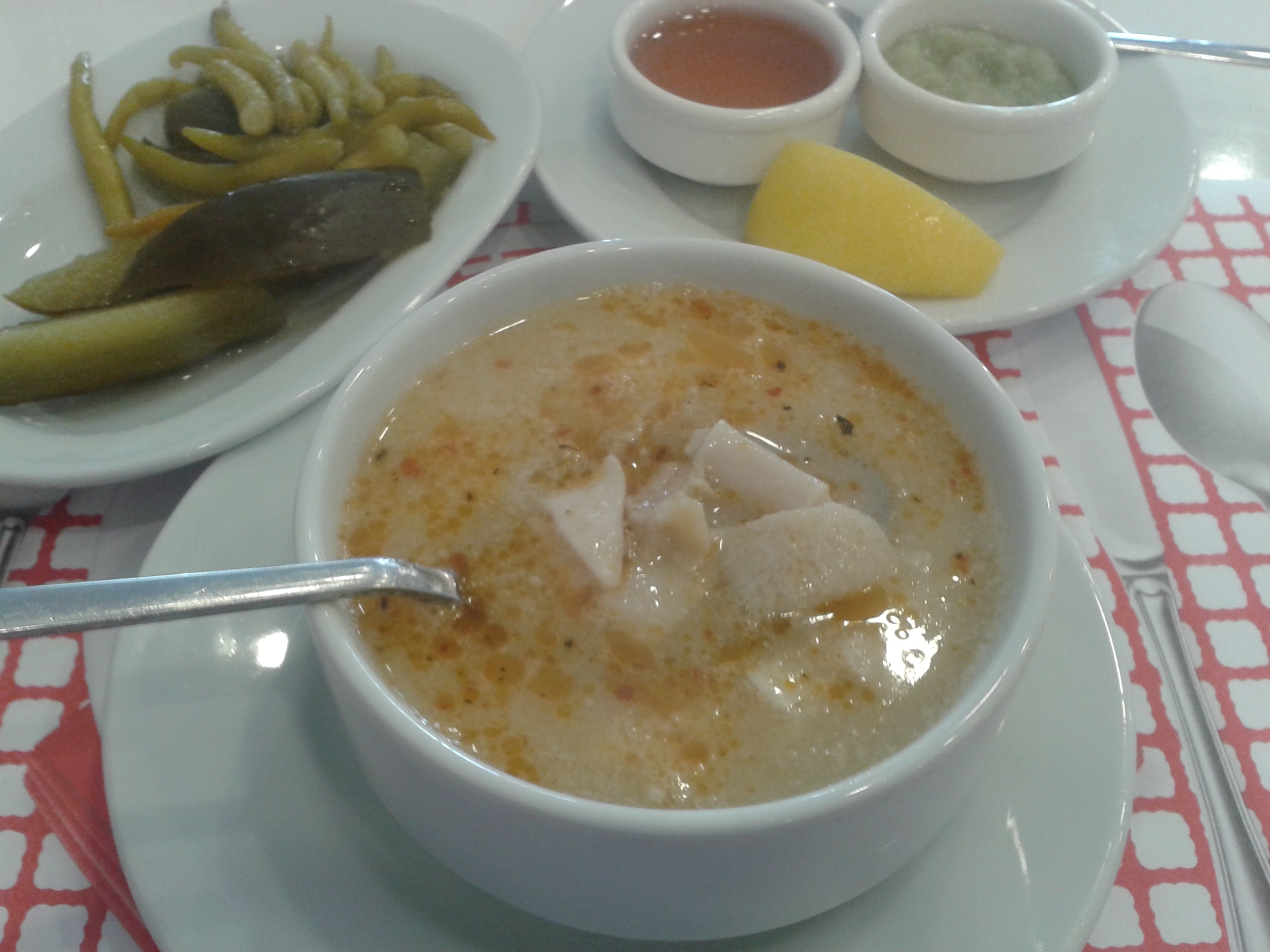 Tripe soup and sauces: "İşkembe" (sheep stomach) soup with its two traditional sauces, vinegar and garlic. The small plate with turshu is on the house.